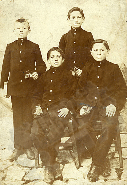 Students in the Kastoria Bulgarian School Atanas Shonev Standing, and Kuzman Karadzhov Sitting Blazho Stamatov and Boris Markov Sitting 1910